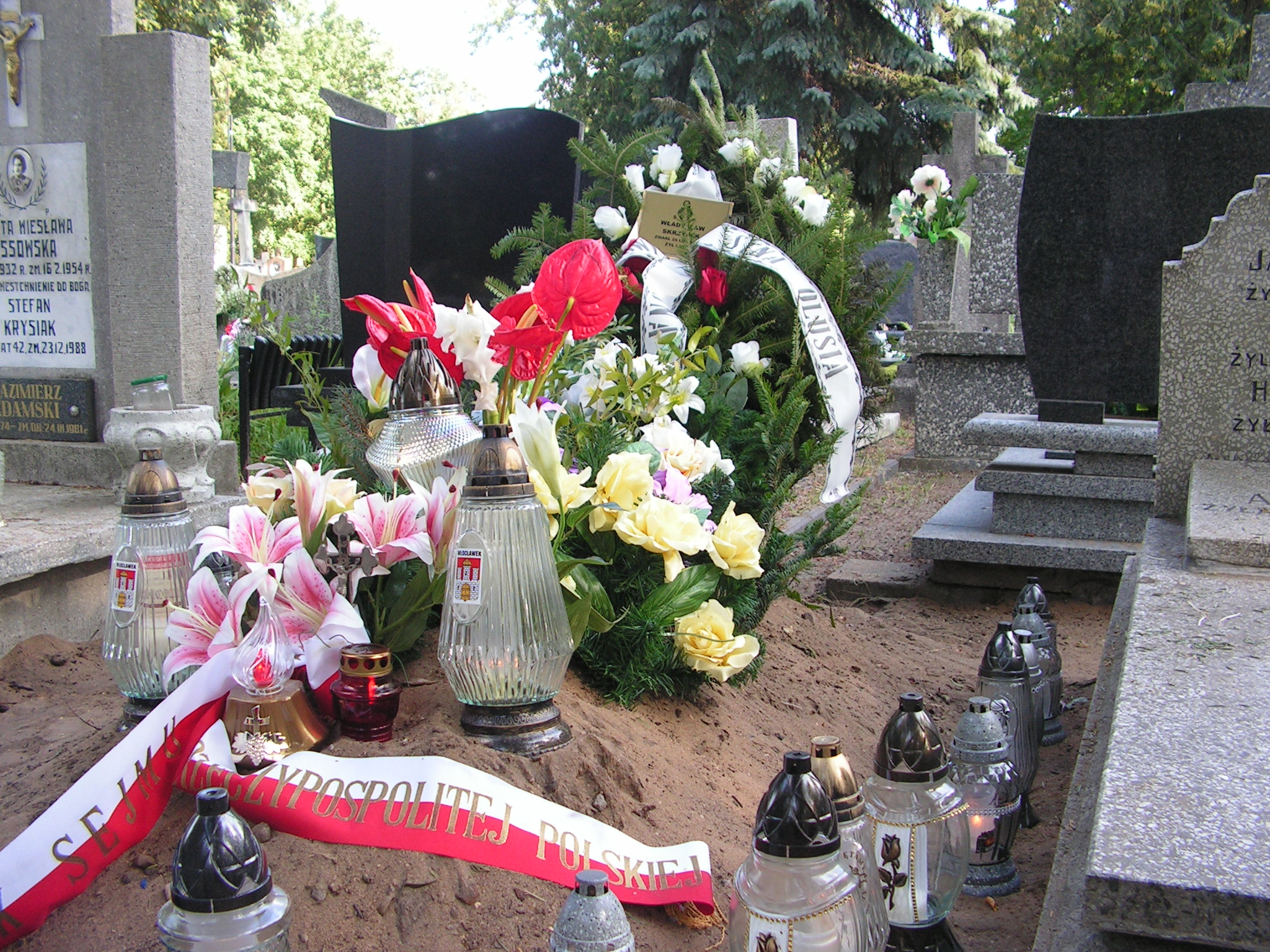 Grave of Władysław Skrzypek, former mayor of Włocławek and member of polish parliament. Here five days after burial, which took place at 27th of july 2019. On the foreground there is ribbon of wreath from marshal of polish parliament.